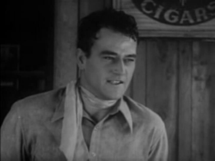 John Wayne in The Lawless Frontier, a 1934 film by Robert N. Bradbury